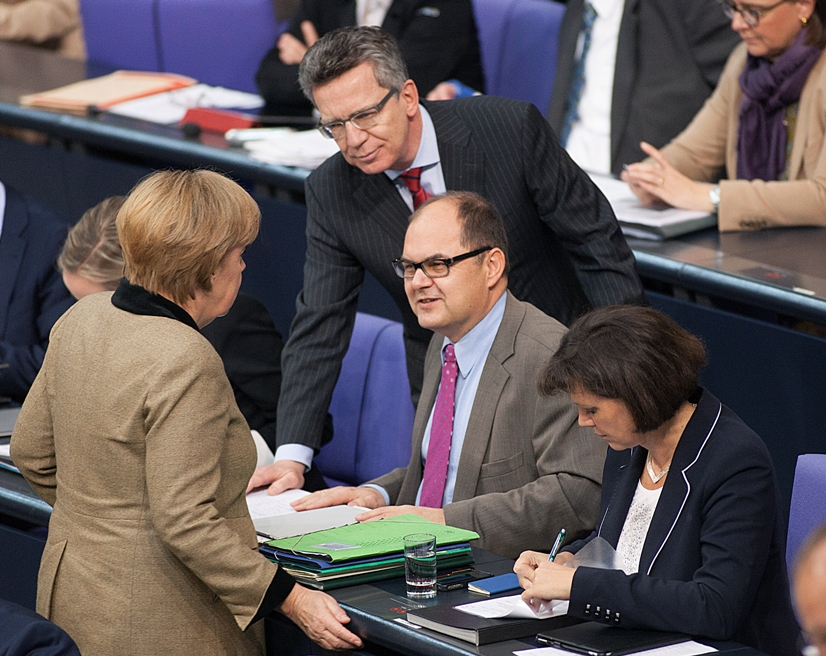 Christian Schmidt (CSU) with Angela Merkel at the Bundestag.